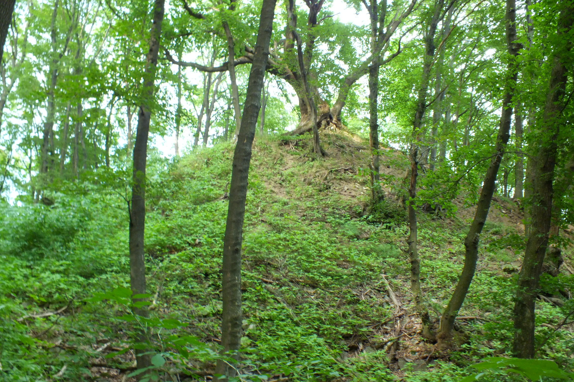 Ruins of the castle Zuvačov on the promontory Hrádek in the White Carpathians, near the village of Komňa, the Czech Republic.